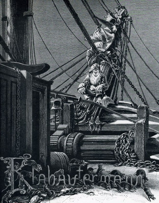 Klabautermann, a spirit from German folklore that lives on ships at sea. Image from the. History from the German Wikipedia.